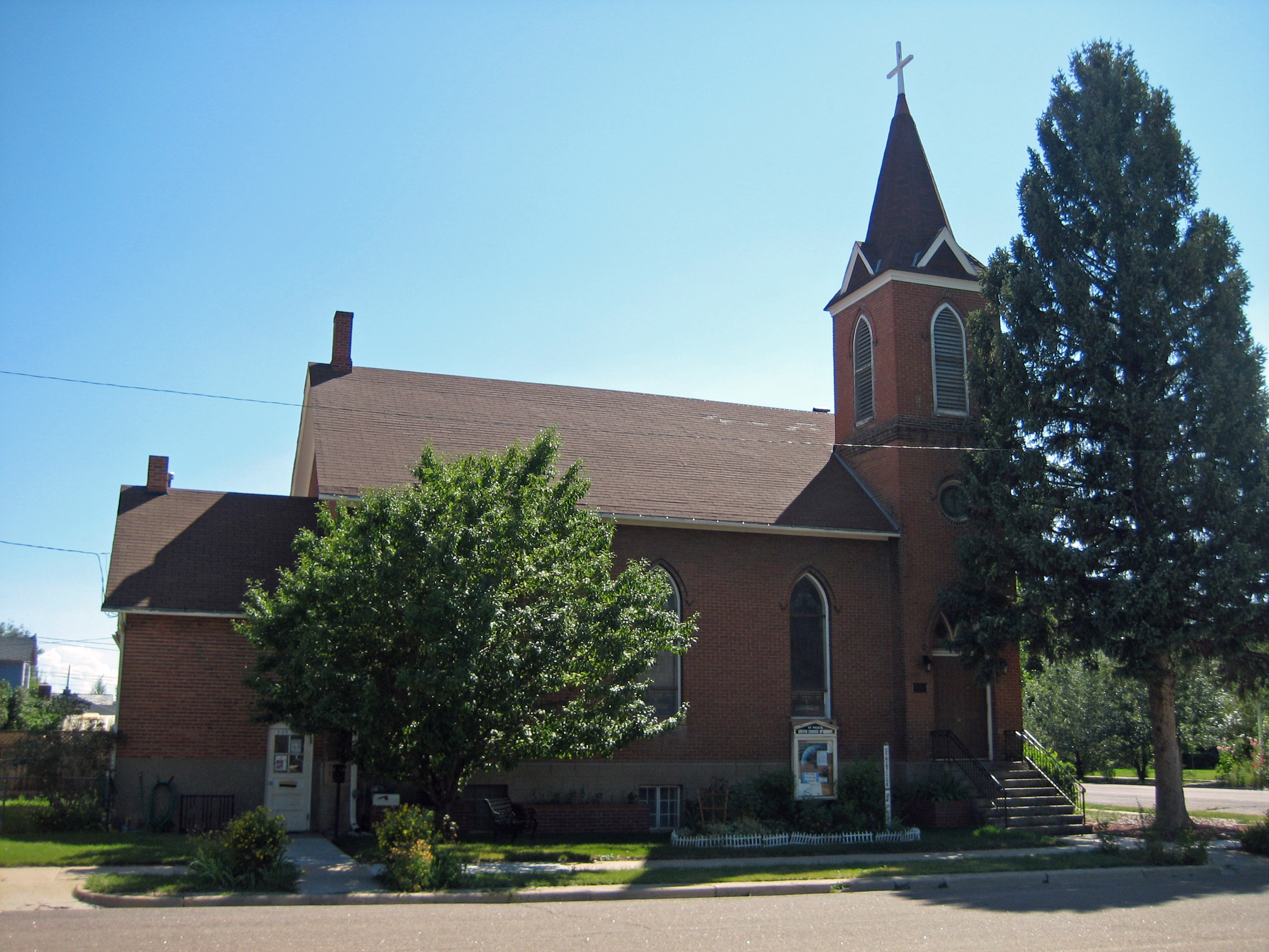 Johndrawls, 22:56, 6 March 2011 (UTC) 2011-03-03